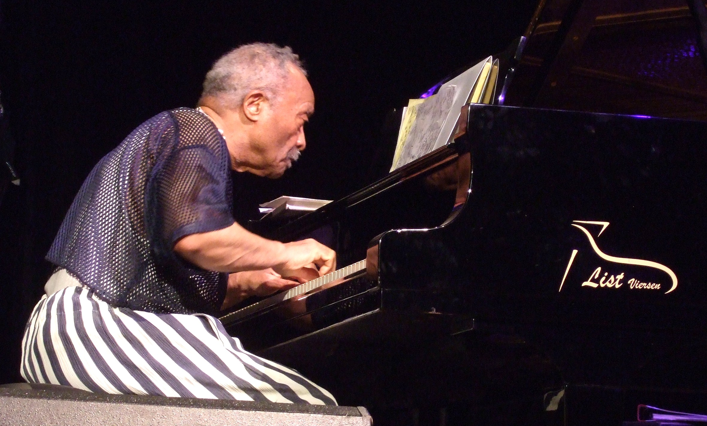 Cecil Taylor